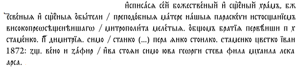 Saint Petka Straza Church Inscription